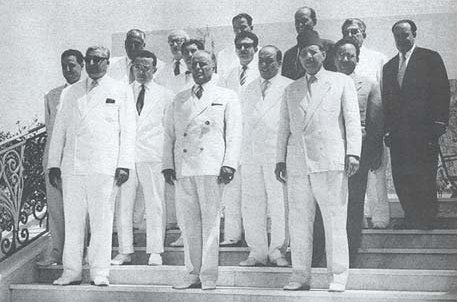 First goverment of the Tunisian Republic in 1957